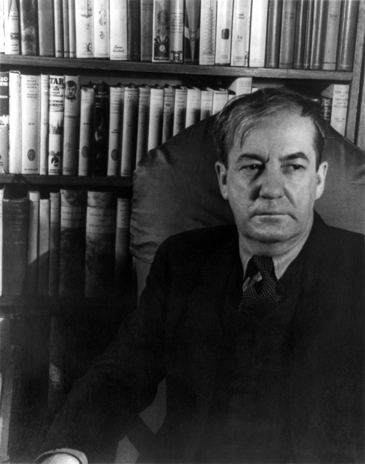 Photo of author Sherwood Anderson. Portrait of Sherwood Anderson, 1933